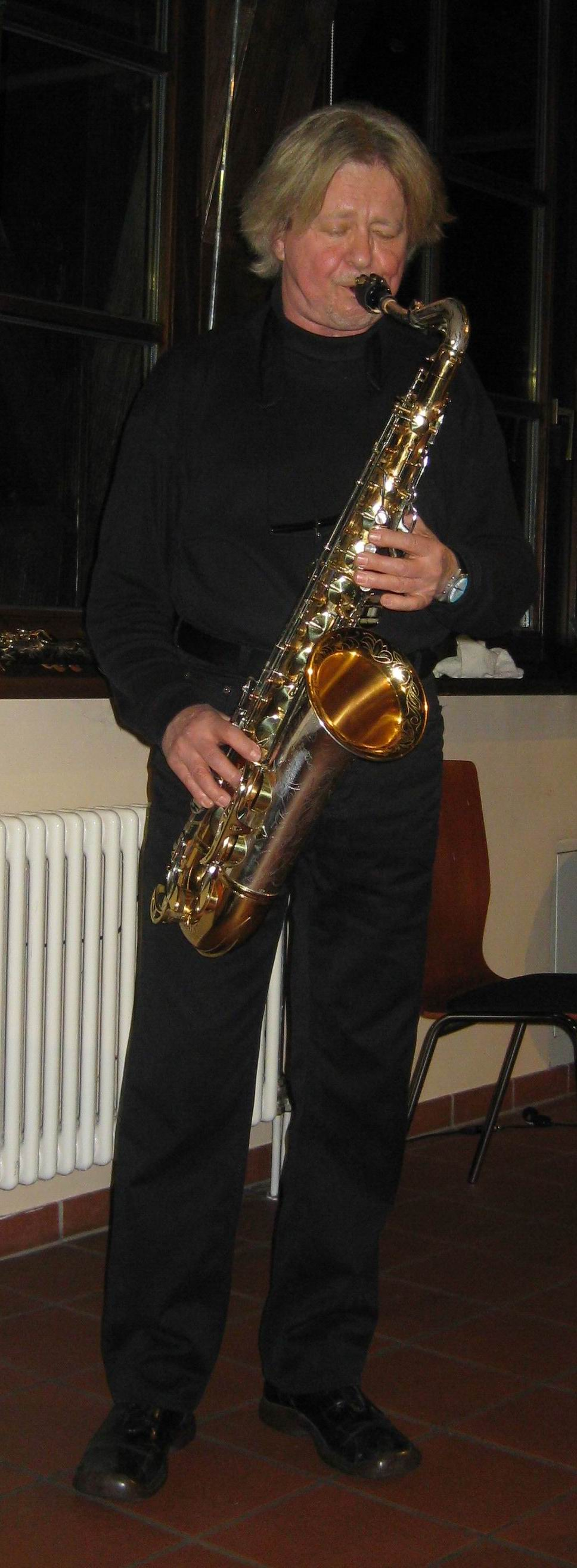 Leszek Zadlo, concert in Nuremberg 2009-11-29 Leszek Zadlo bei einem Konzert im Krakauer Turm in Nürnberg